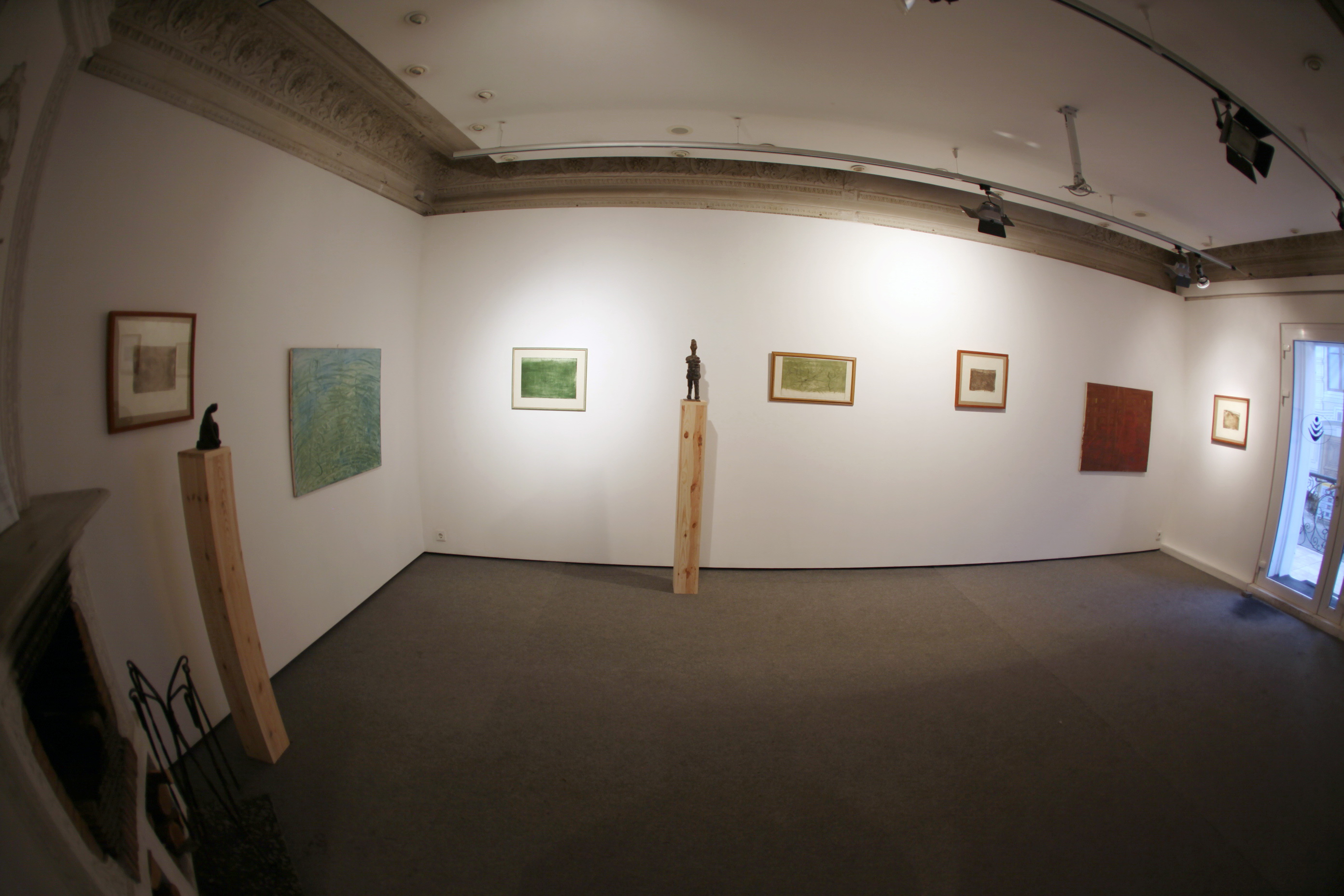 Alexander Sukholit's work exhibited at the Karas Gallery, Kiev, 2012